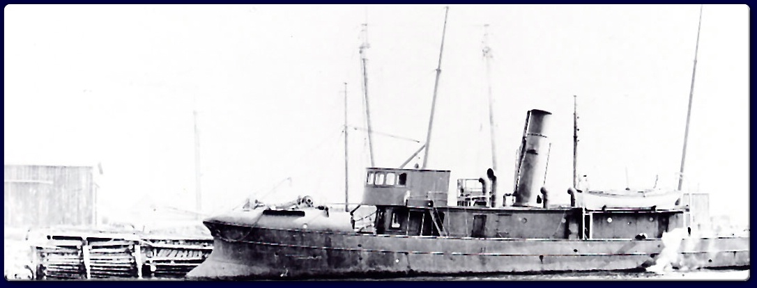 HMCS Curlew, date and location unknown.